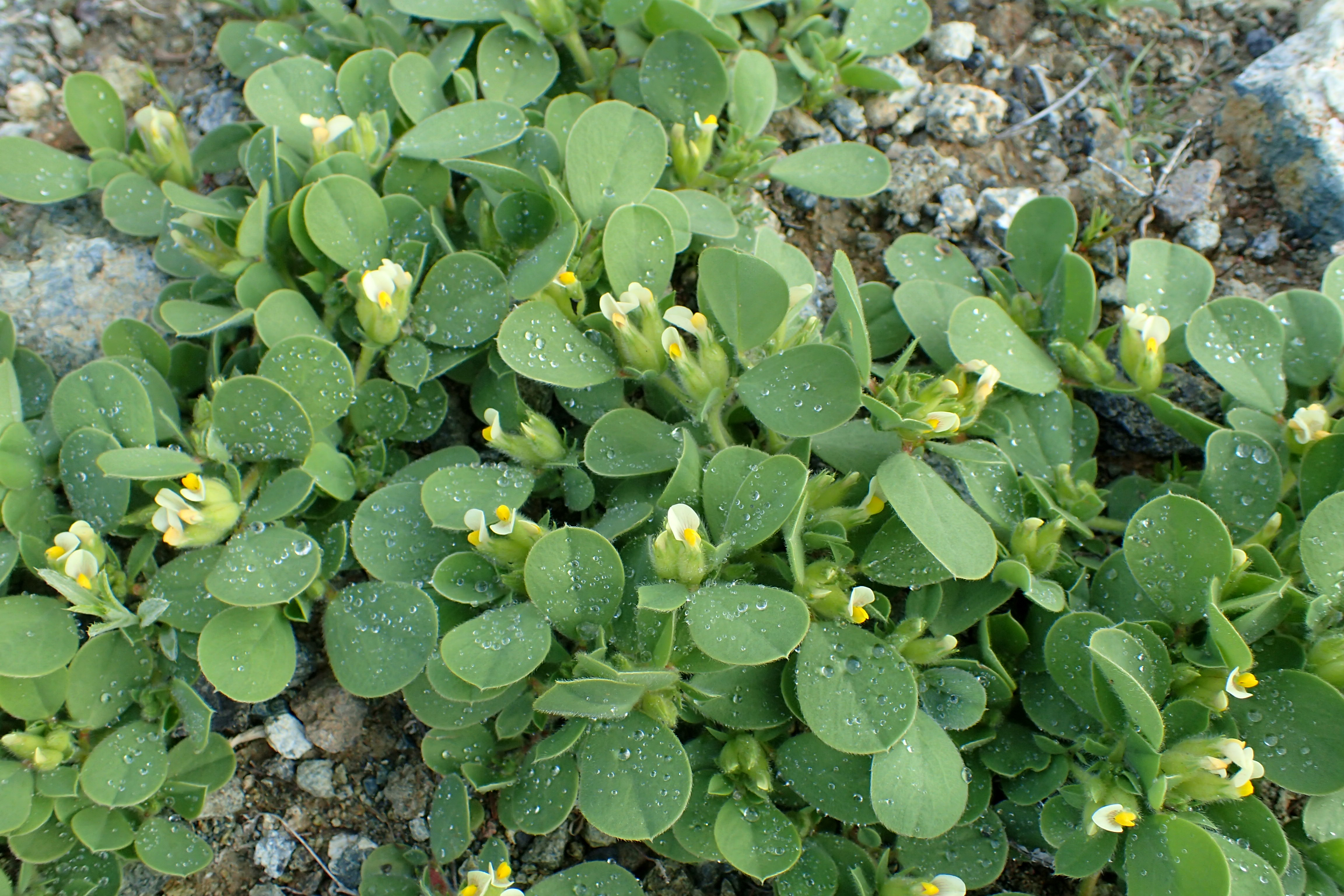 Tripodion tetraphyllum N from Pareklisia, Cyprus